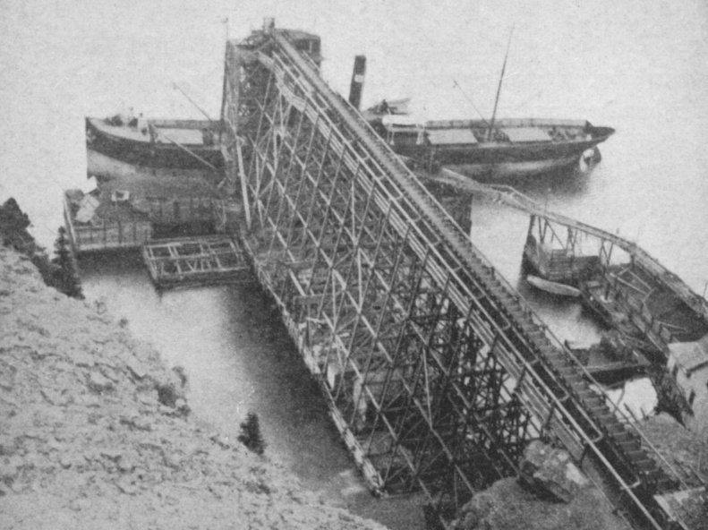 The loading pier at Bell Island, Conception Bay Newfoundland, ca 1903